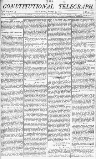 From: The Constitutional Telegraph (Boston, Massachusetts) Further information: American Antiquarian Society. Catalog.